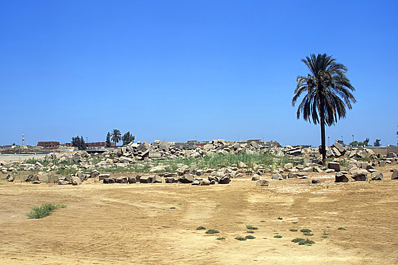 View to the archaeological site of Behbeit el-Higara, el-Gharbiya, Egypt